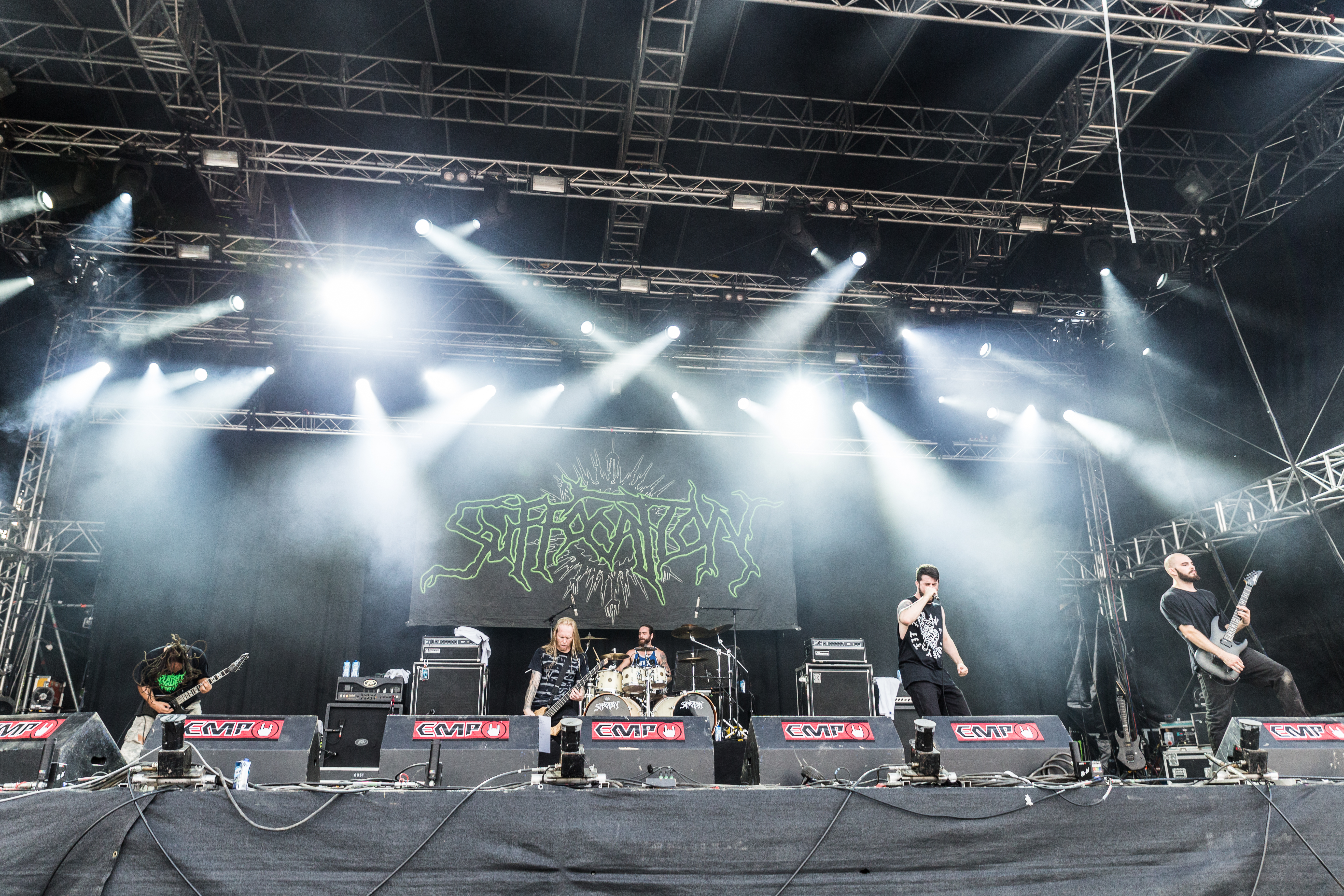 The American death metal band Suffocation at the Summer Breeze Open Air 2017 in Dinkelsbühl/Germany.